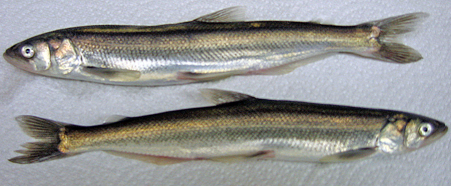 Eulachon (Thaleichthys pacificus) caught Sunday, May 15th 2005 at Twentymile River, Alaska.